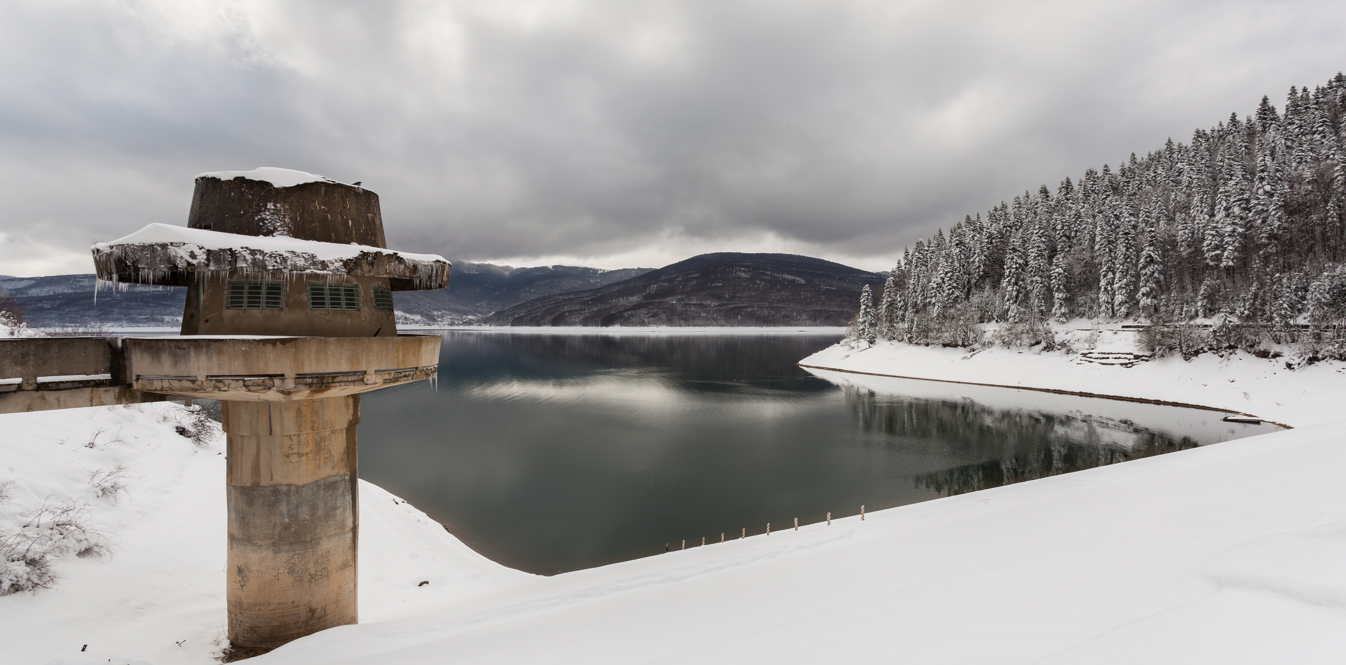 Winter scene of the watching tower, dam and Mavrovo Lake, Mavrovo National Park, Republic of Macedonia. The park, founded in 1949, is the largest (of the three existing) in the country with 780 km2, while the lake has a length of 10 km and a width of 5 km.